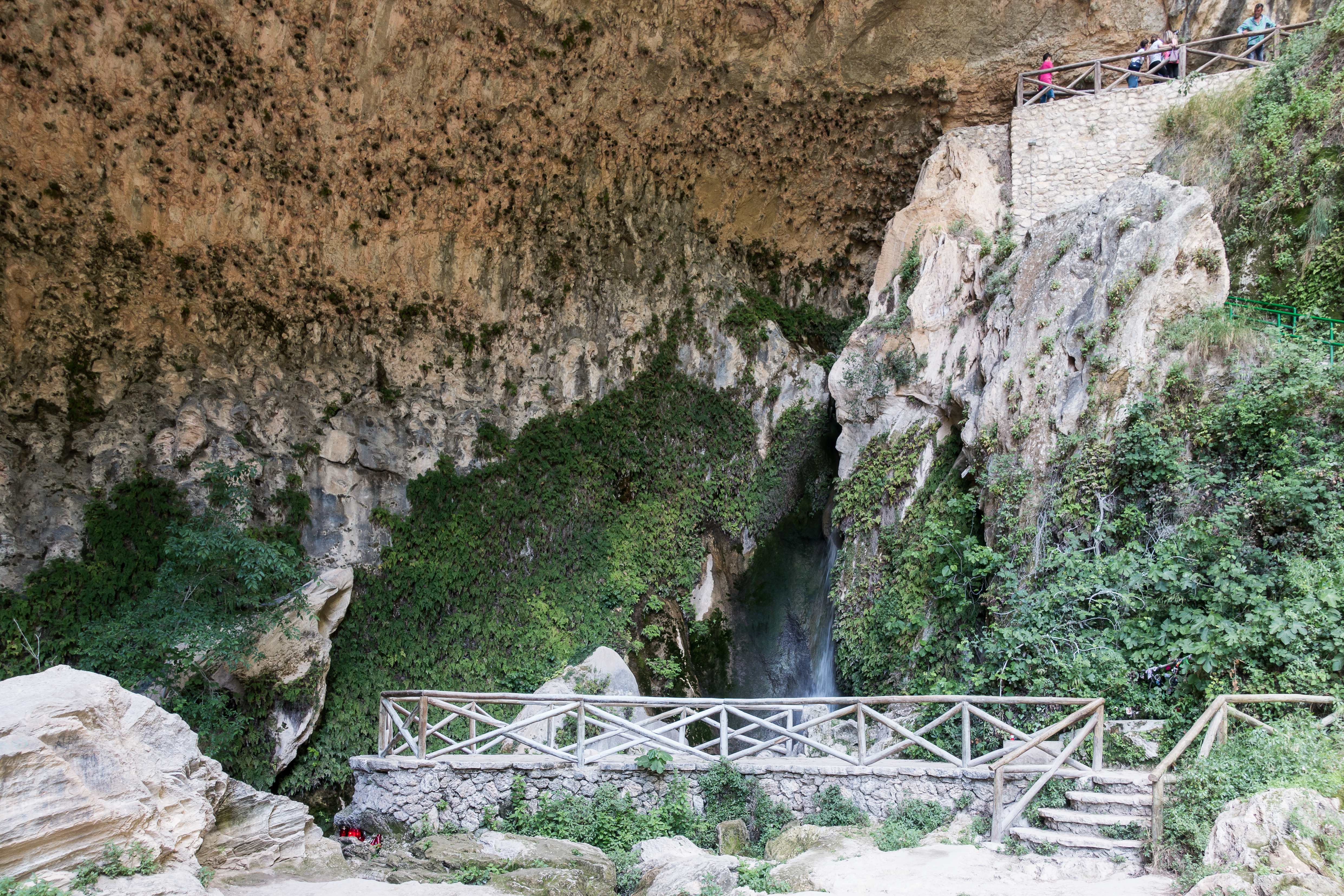 Cueva del Agua in Tiscar. Sierras de Cazorla, Segura y las Villas Natural Park. This is a photography of a Special Area of Conservation in Spain with the ID: ES0000035. Natura2000 entry, EEA entry